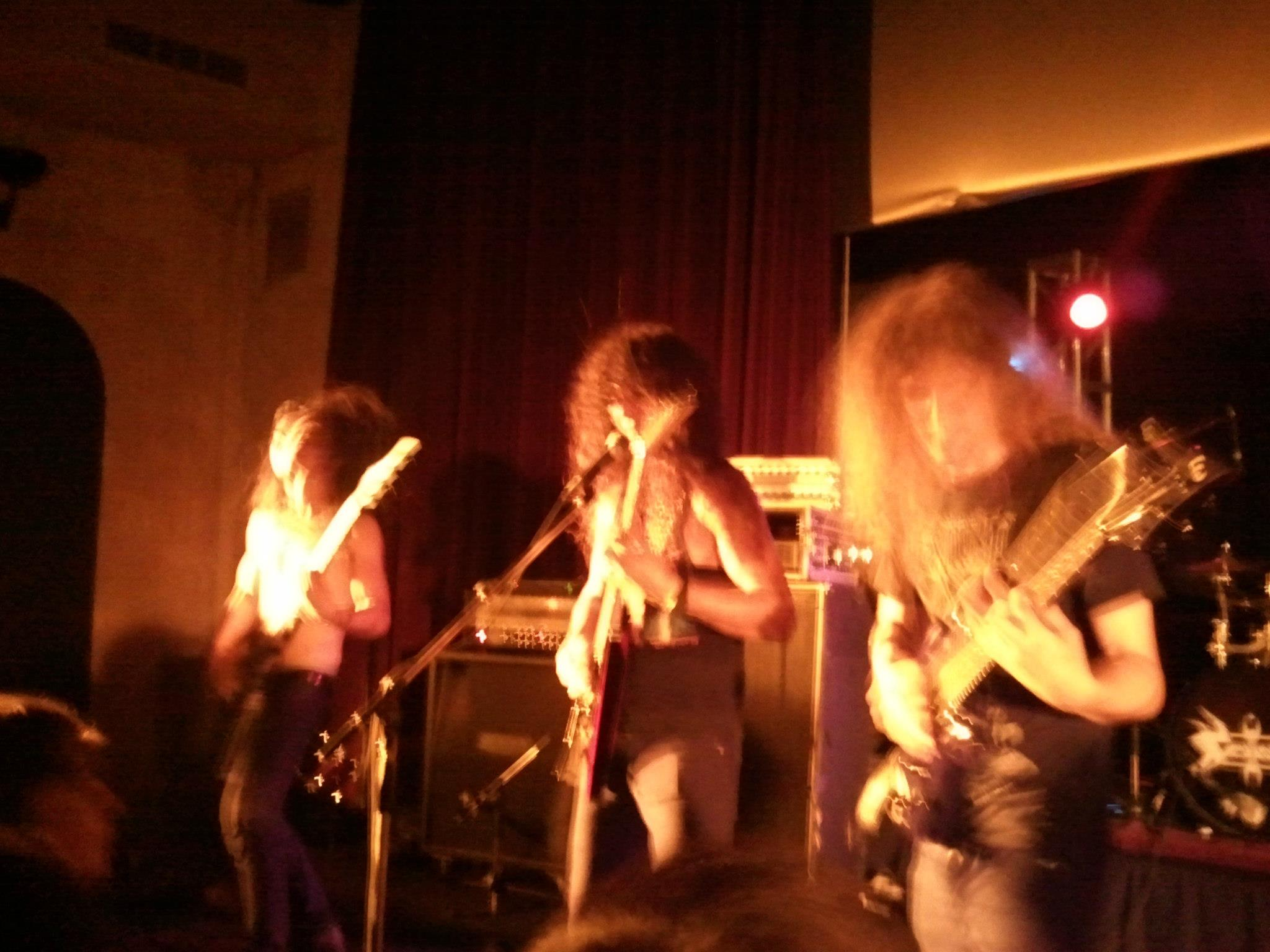 Vektor playing in Hamilton, Ontario, 2012